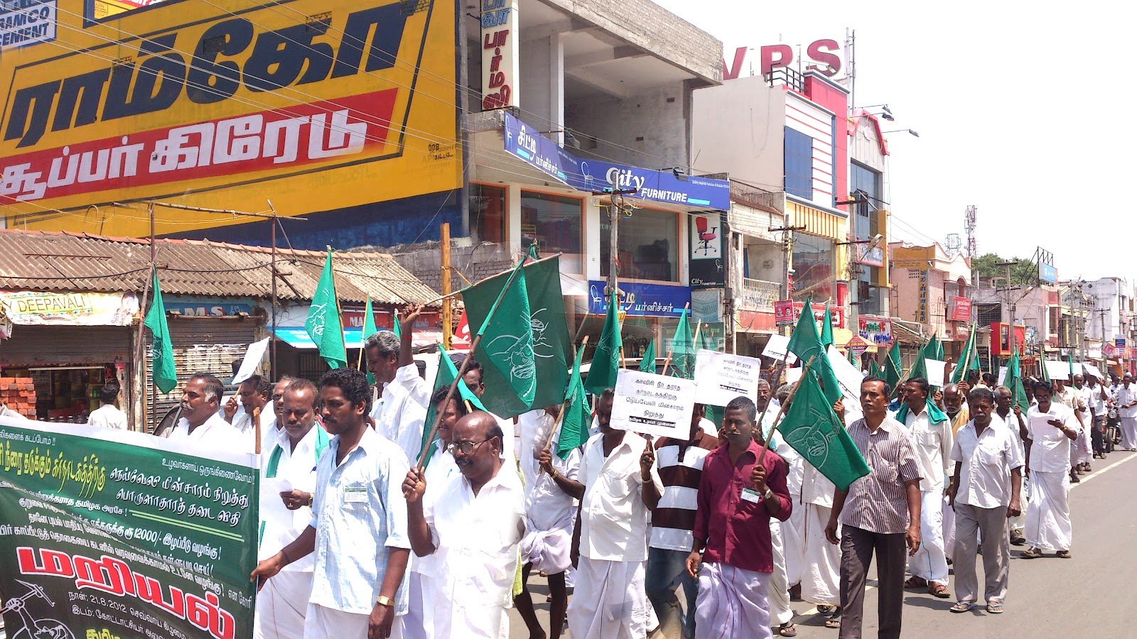 காவிரி நடுவர் மன்ற இடைக்காலத் தீர்ப்பீன்படி கர்நாடகத்திலிருந்து மாதந்தோறூம் நீரைப்பெற தமிழக அரசு தவறியதால் ஏற்பட்ட குறுவை சாகுபடி இழப்புக்கு ஏக்கருக்கு ரூ12,000/- இழப்பீடு கோரி தமிழக உழவர் முன்னணி சிதம்பரம் கோட்டாச்சியர் அலுவலகம் முன்பு மறியல் போராட்டம் நடத்தினர்(21.08.2012 ).